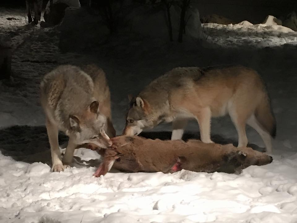 Two Gray Wolves eating a White-tailed Deer at night.